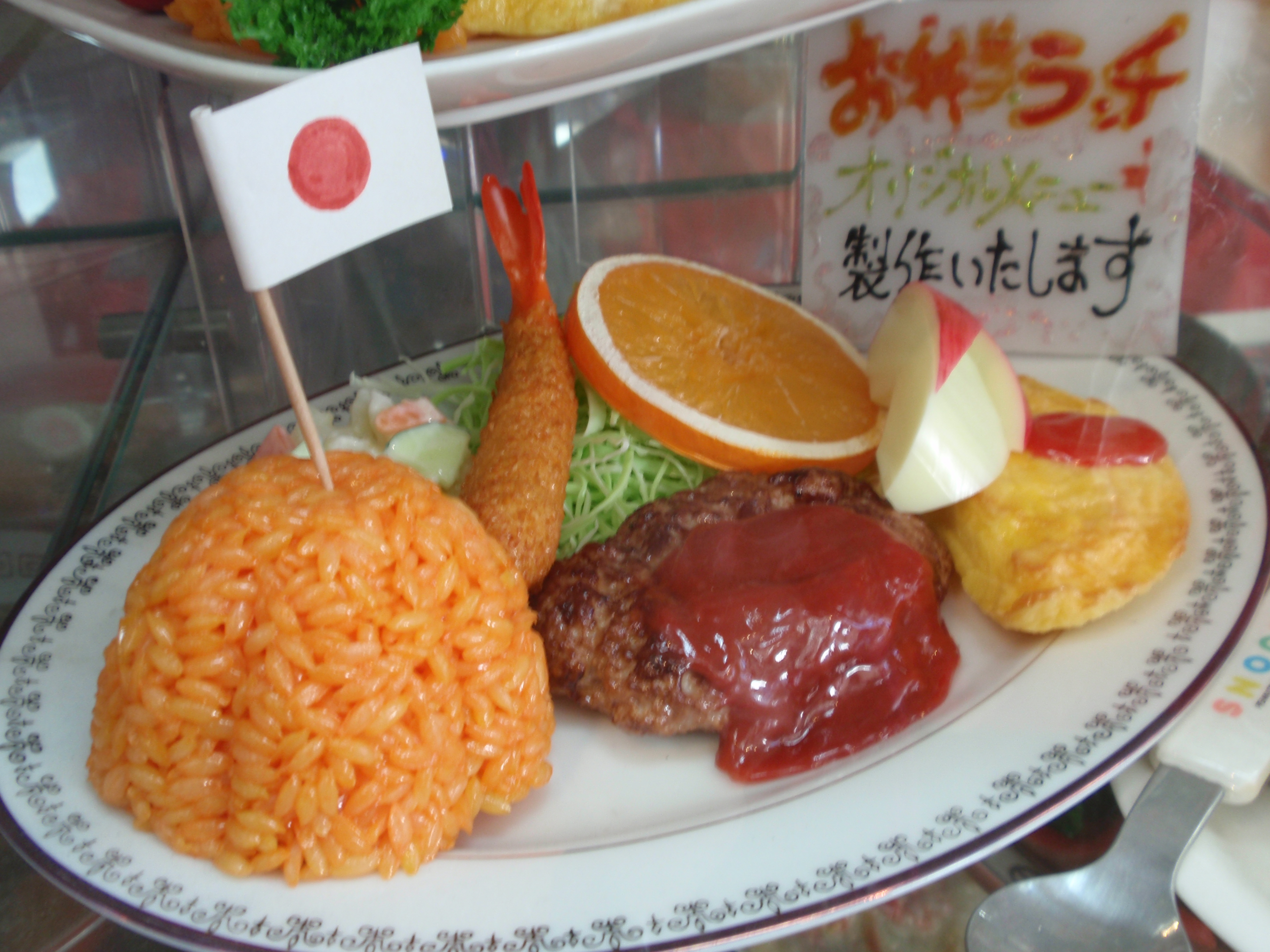 kids plate sample